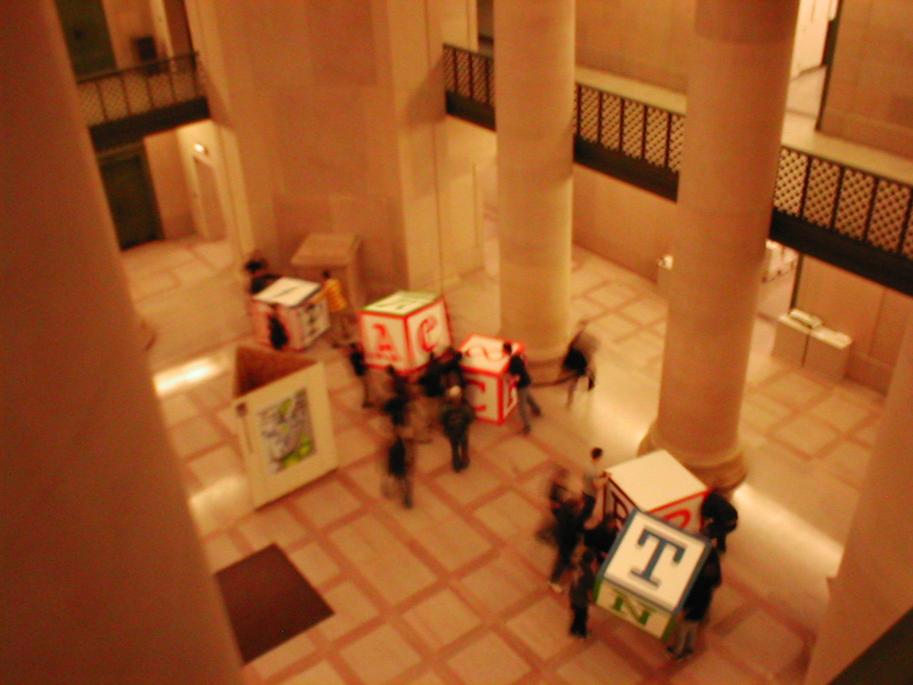 A hack in progress in Lobby 7 at MIT. Taken April 6, 2003 by User:SPUI. Post-deployment photos are at the IHTFP Gallery.